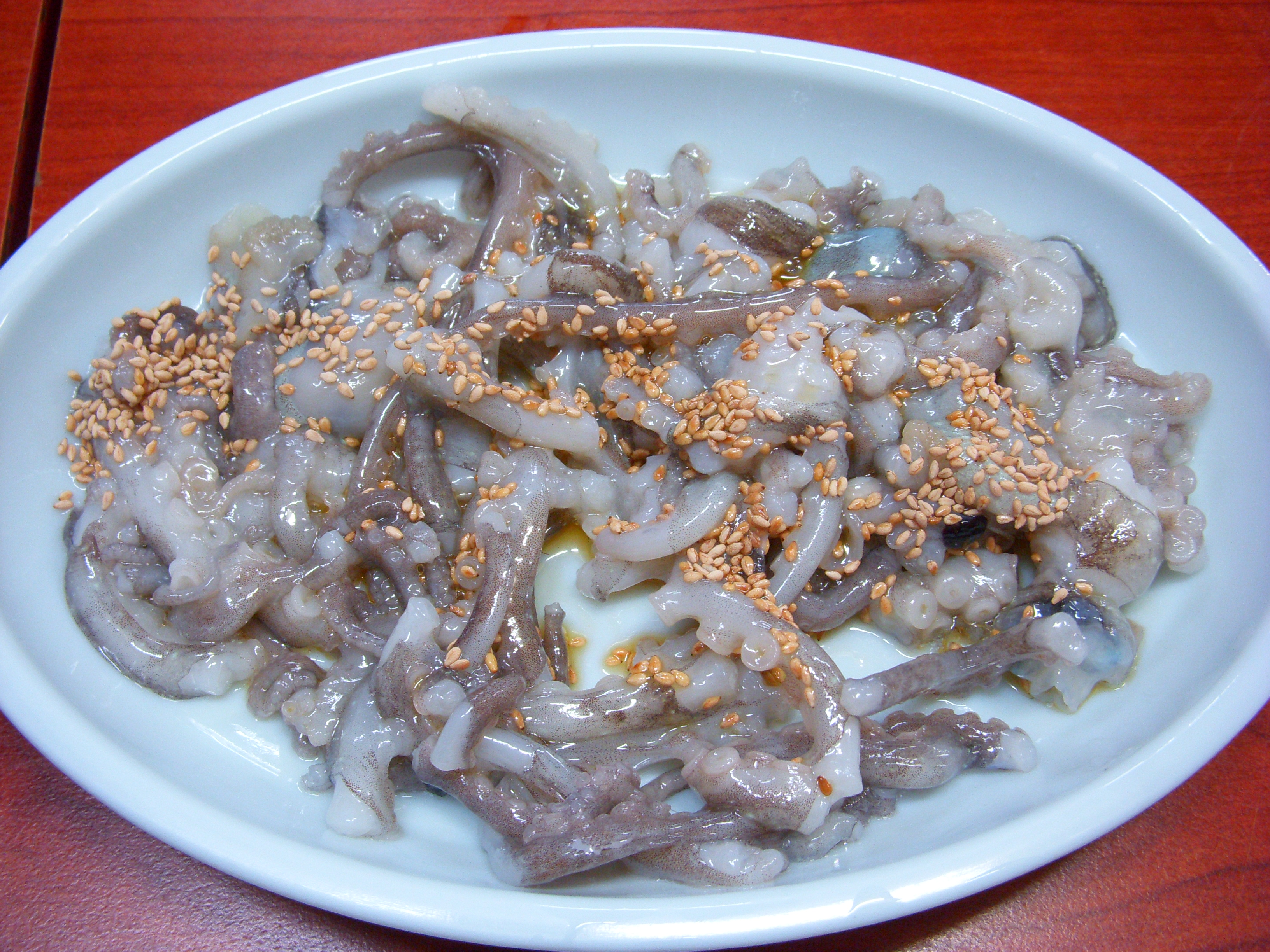 Sannakji, a raw small octupus in Korean cuisine